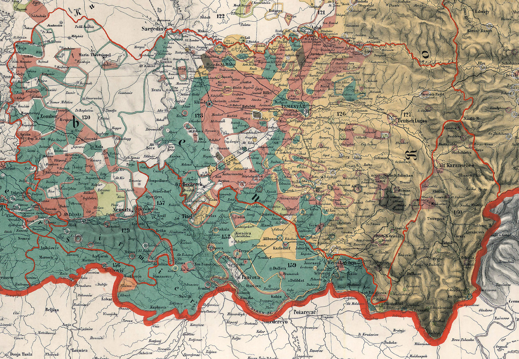 Ethnic map of the Voivodeship of Serbia and Banat of Temeschwar in 1855.Blue - Serbs and CroatsOrange - RomaniansRed - GermansWhite - HungariansGreen - Slovaks